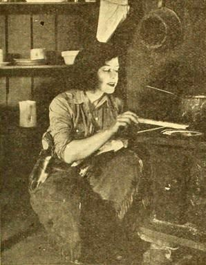 Still from the American western film The She Wolf (1919) with Texas Guinan, on page 1673 of the June 14, 1919 Moving Picture World.